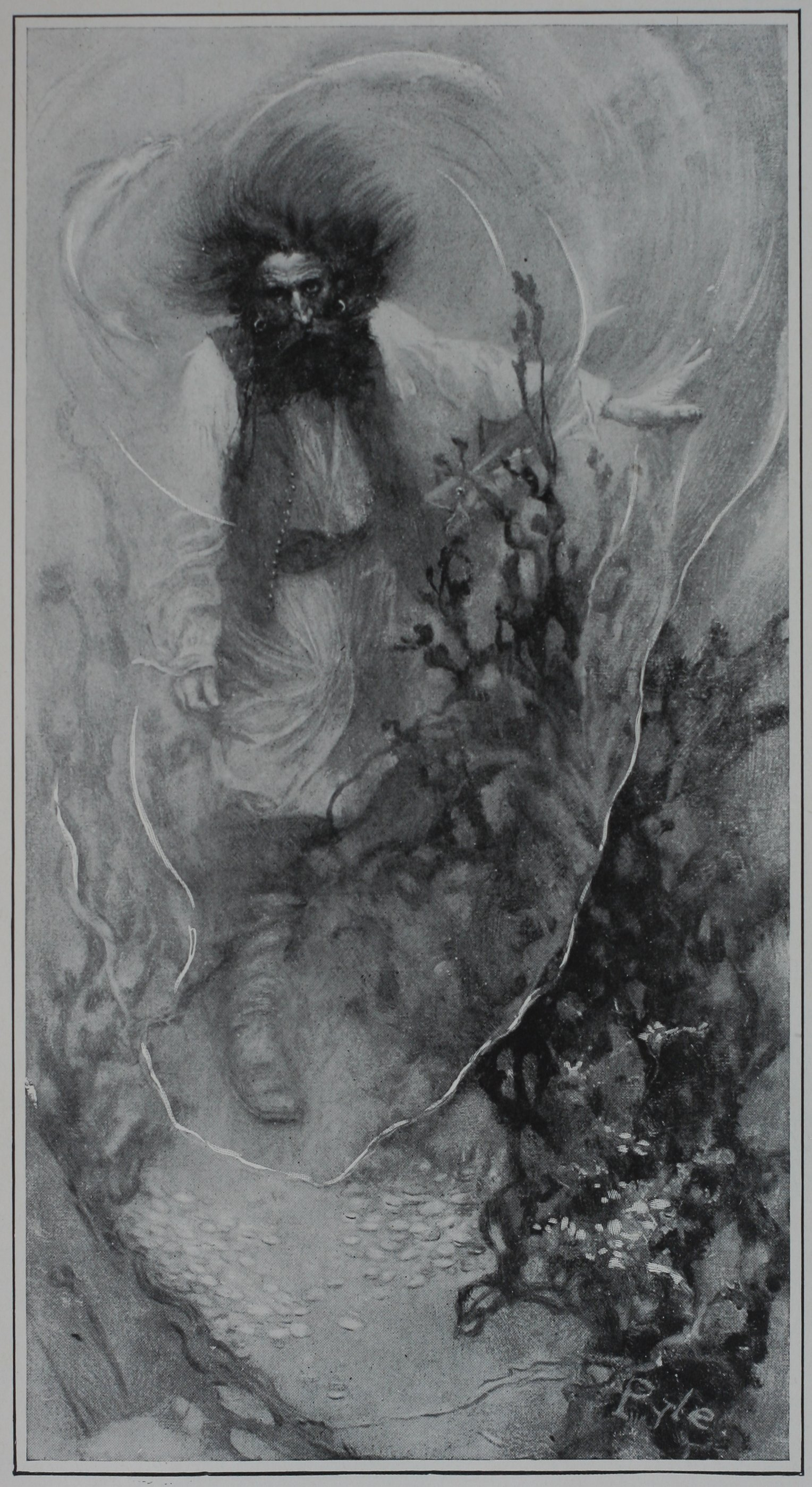 There Cap'n Goldsack goes, creeping, creeping, creeping, Looking for his reasure down below!: illustration of a pirate ghost. This was originally published in Sharp, William (July 1902). "Cap'n Goldsack". Harper's Magazine.